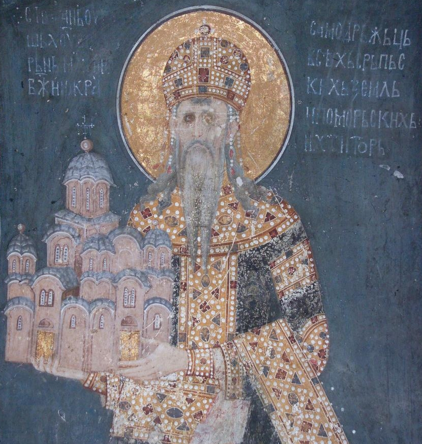 The fresco of king Stefan Milutin, Gračanica monastery, Serbia